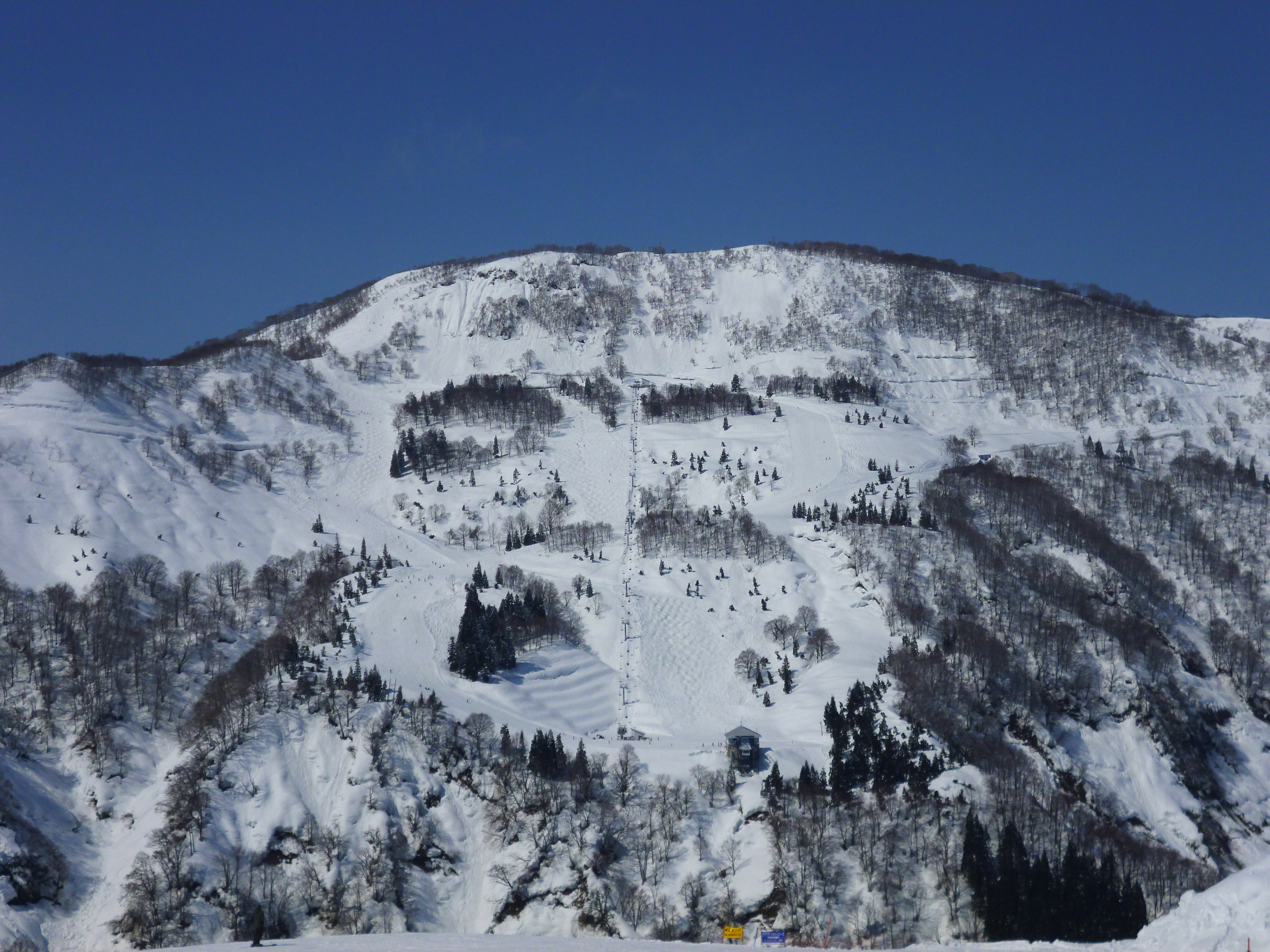 Southern area of Gala-Yuzawa Snow Resort in Yuzawa, Niigata, Japan.